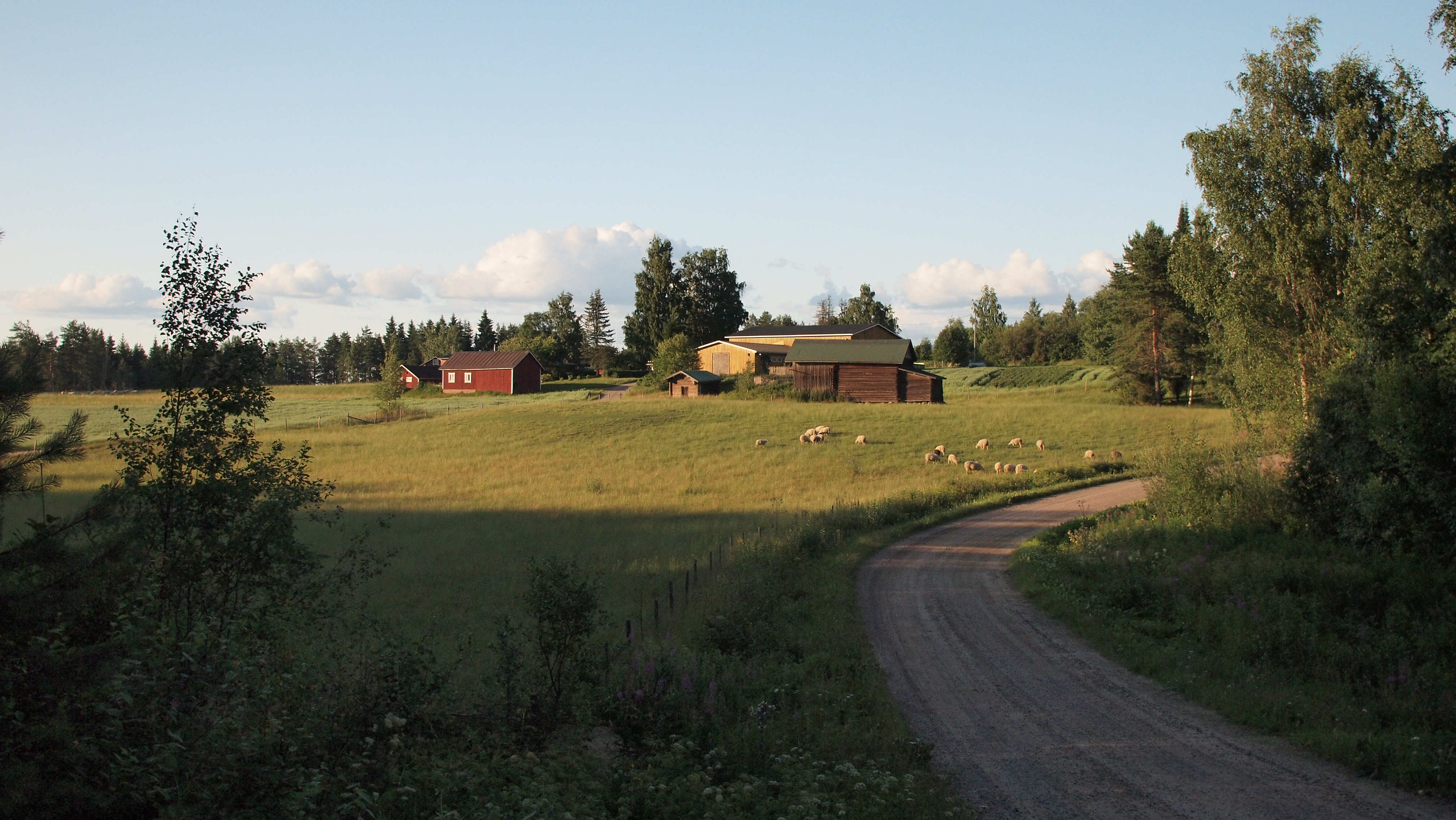 The village of Punkka near Suomenniemi, a former municipality of Finland. Suomenniemi was consolidated with the city of Mikkeli on January 1, 2013.